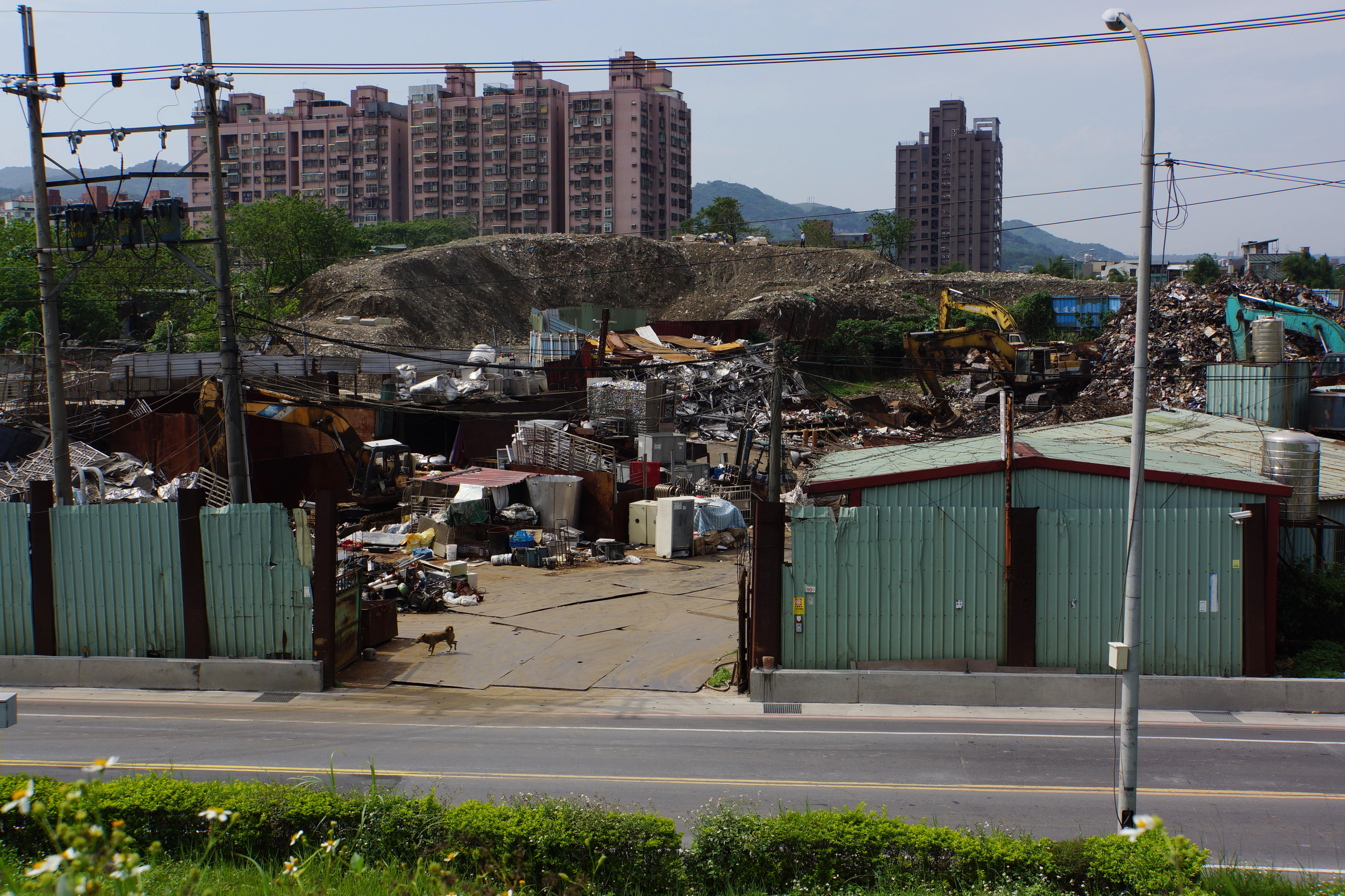 資源回收場 Recycling Dumps